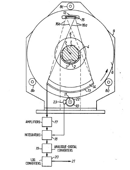 Schematic representation of CT scanner.